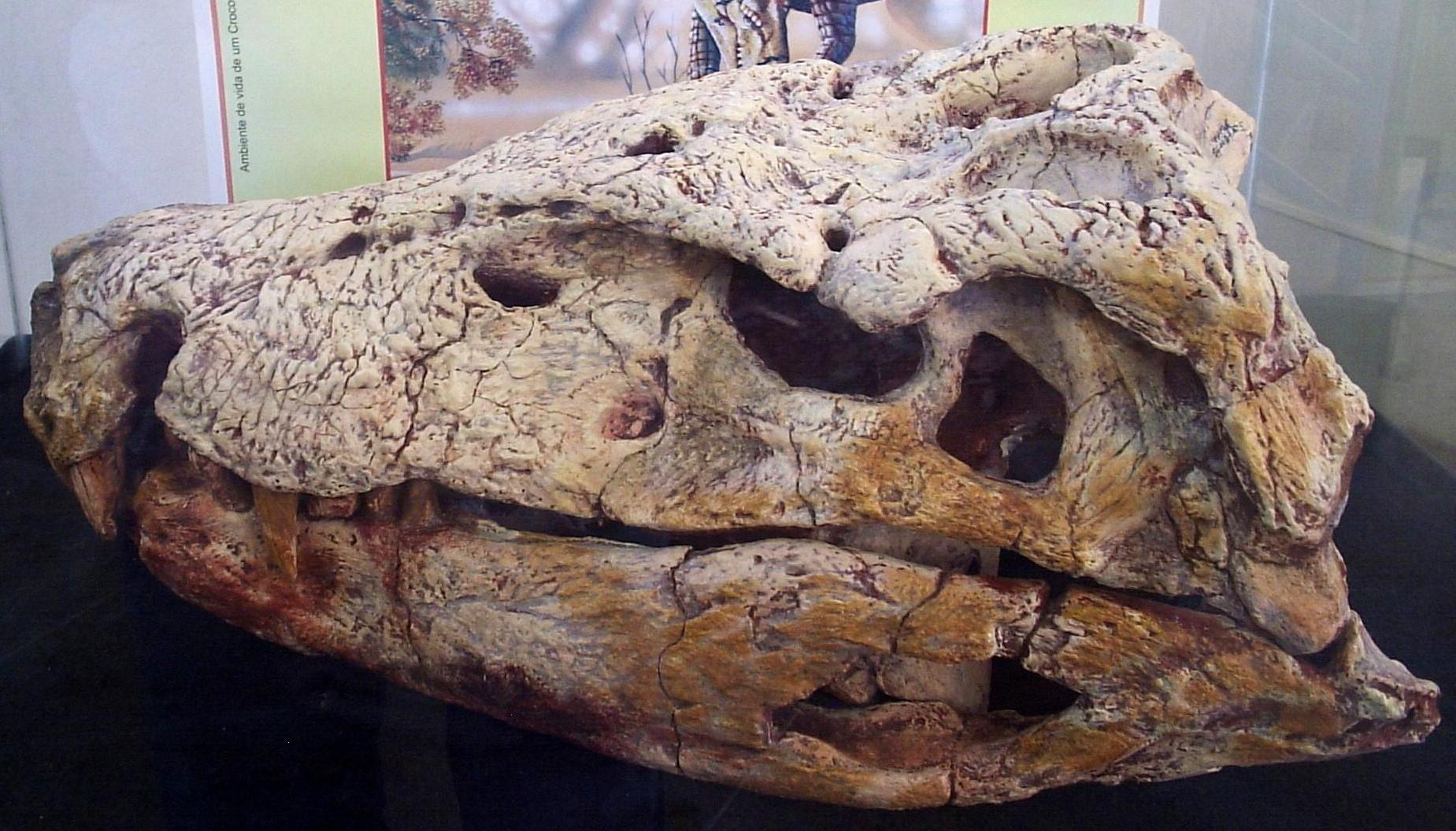 Original fossil skull of Baurusuchus salgadoensis, a prehistoric reptile from the Cretaceous of Brazil, extinct about 90,000,000 years ago. Collection of the Monte Alto Museum of Paleontology, Monte Alto, SP, Brazil.